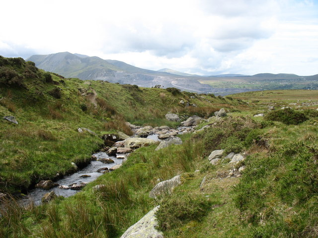 Looking down stream towards the ford on Afon Ffrydlas